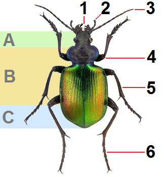 Calosoma sycophanta